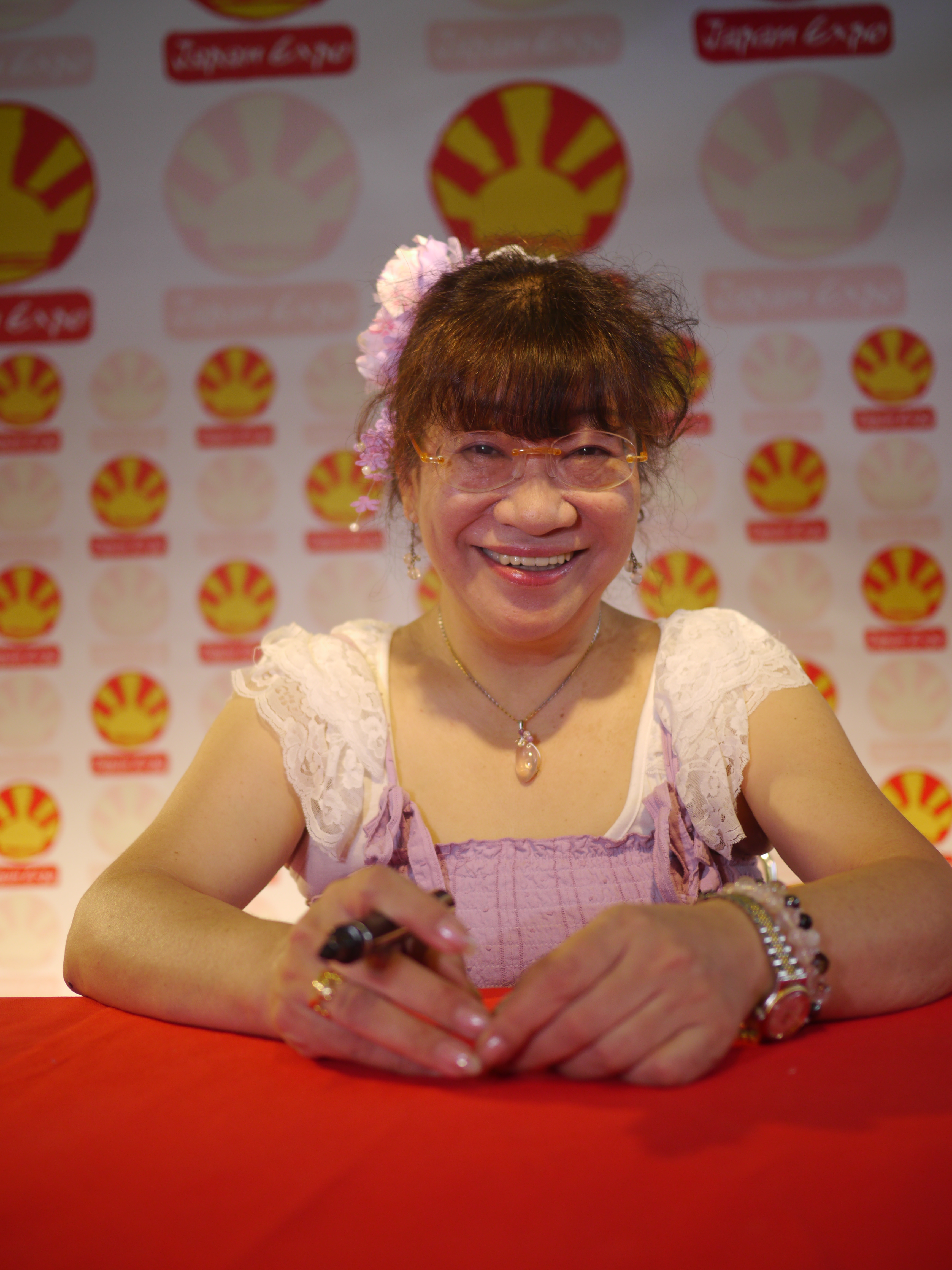 Japan Expo Festival, 12th impact